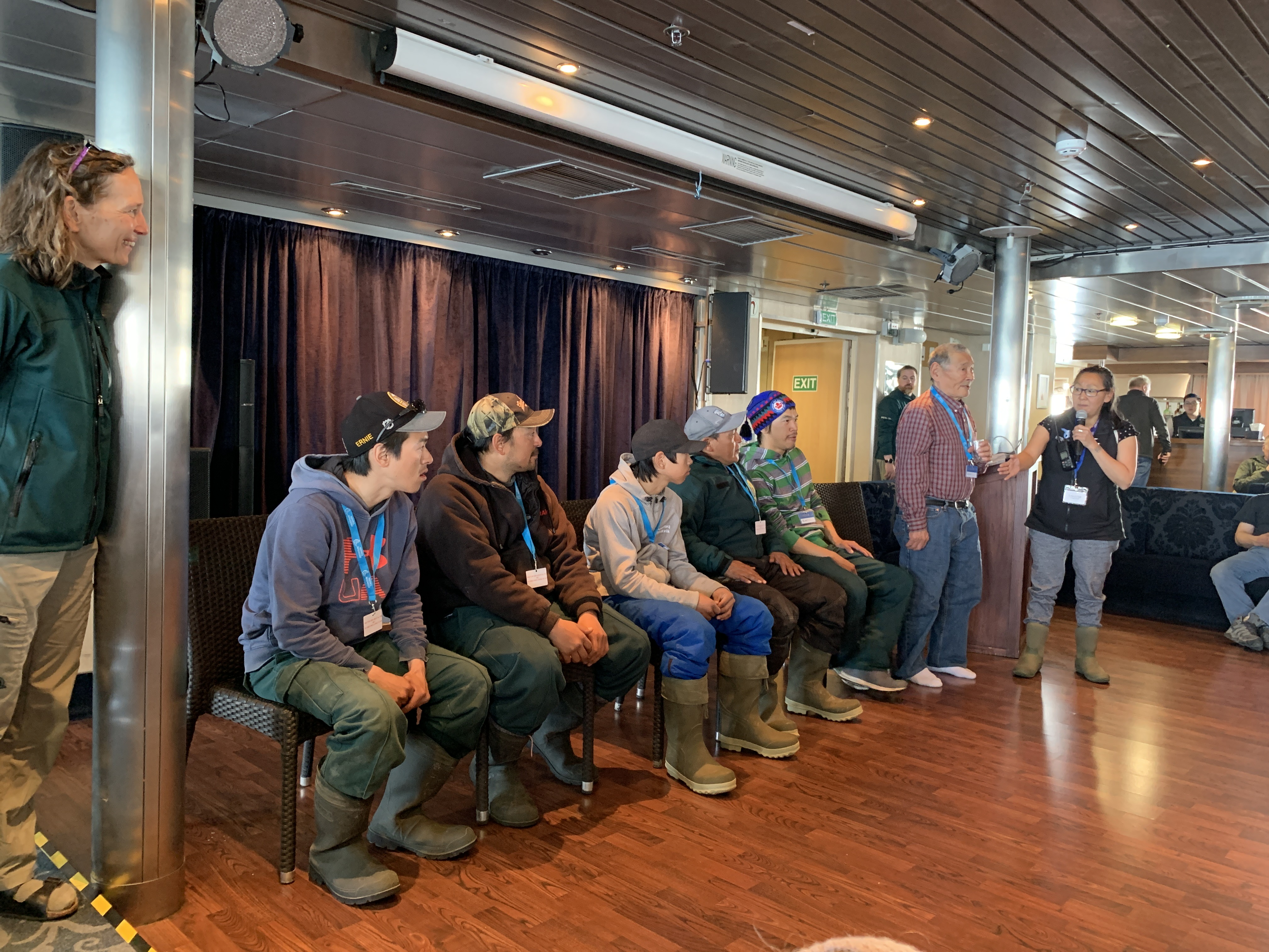 Inuit guardians from Gjoa Haven on MS Ocean Endeavour as part of the trial visitor access to the Wrecks of HMS Erebus and HMS Terror National Historic Site, 2019. The guardians monitor access to the site to enforce the access restrictions. The guardians are the 5 seated men and the standing man to their immediate right.